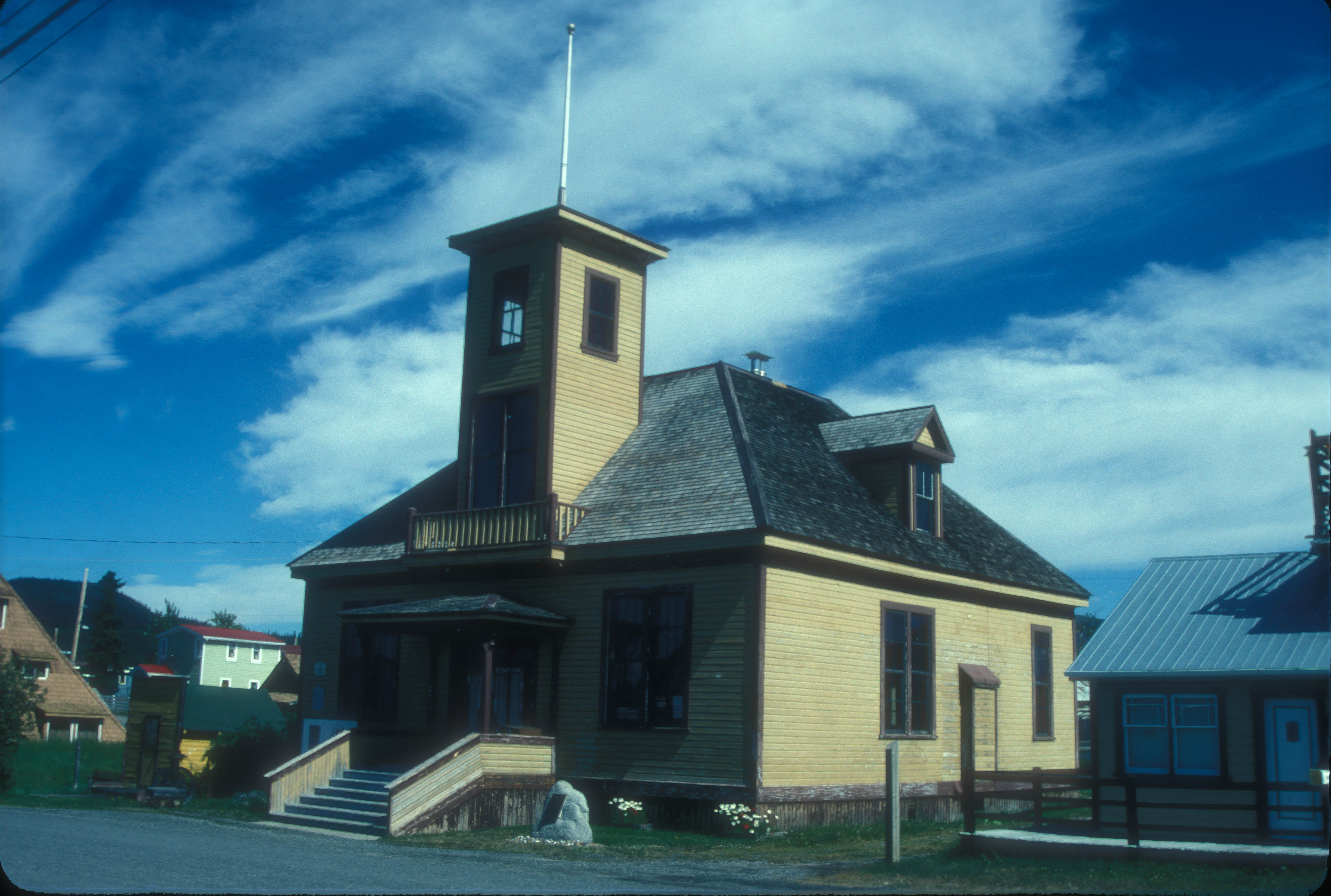 ATLIN COURTHOUSE BUILT IN 1900 AND NOW AN ART GALLERY FOR LOCAL ARTISTS AND CRAFTSMEN